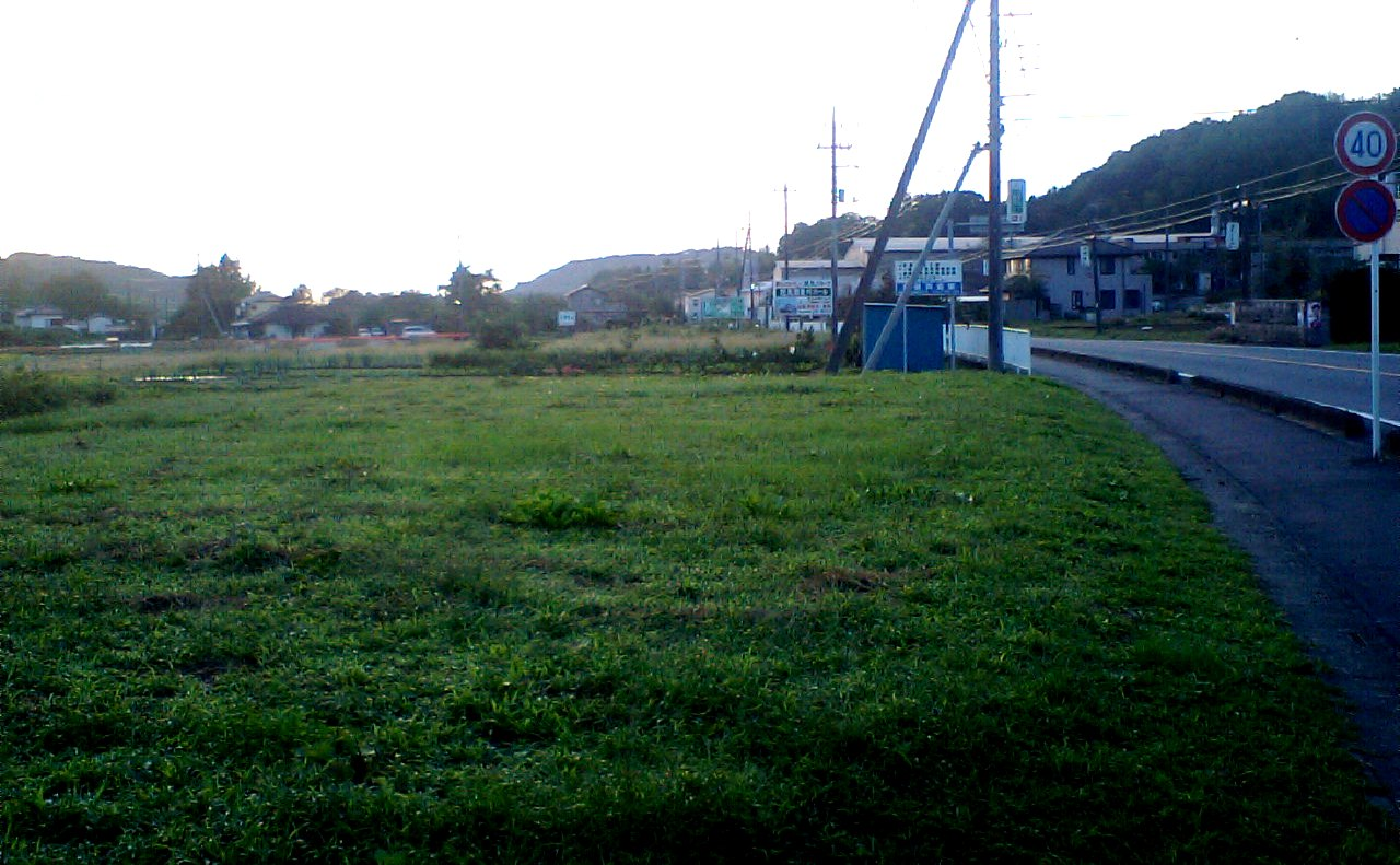 Hikage,Tokigawa-town,Saitama-pref,JAPAN.